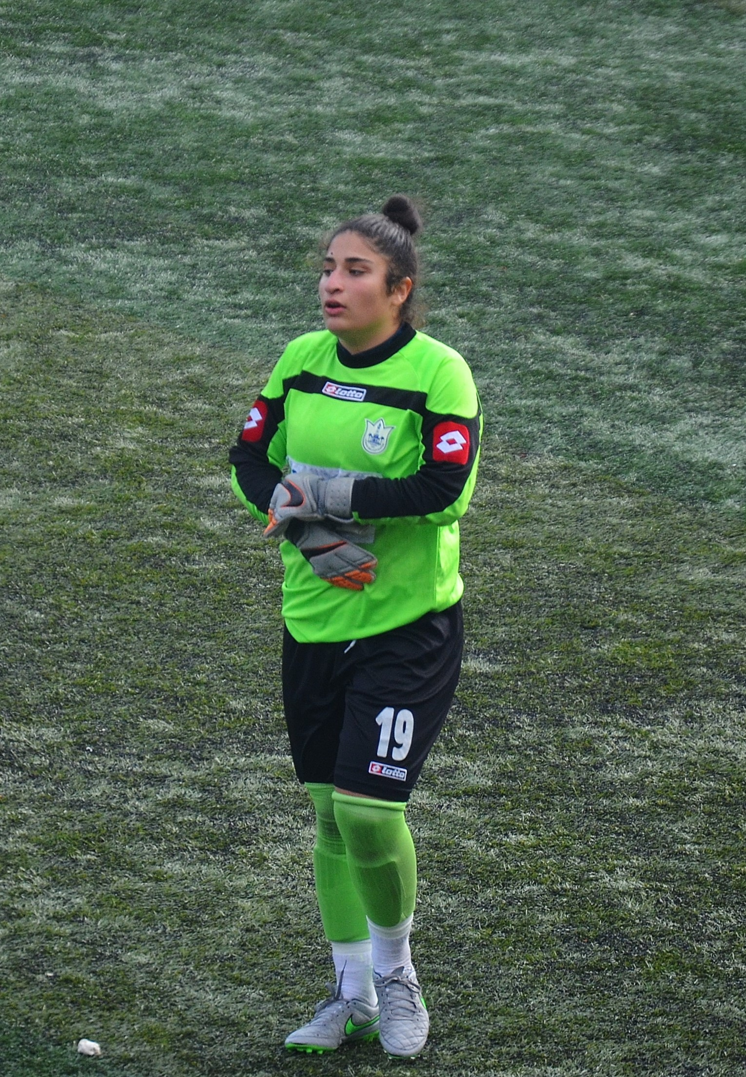 Sude Mihri Çınar playing for Konak belediyespor in the 2015-16 season